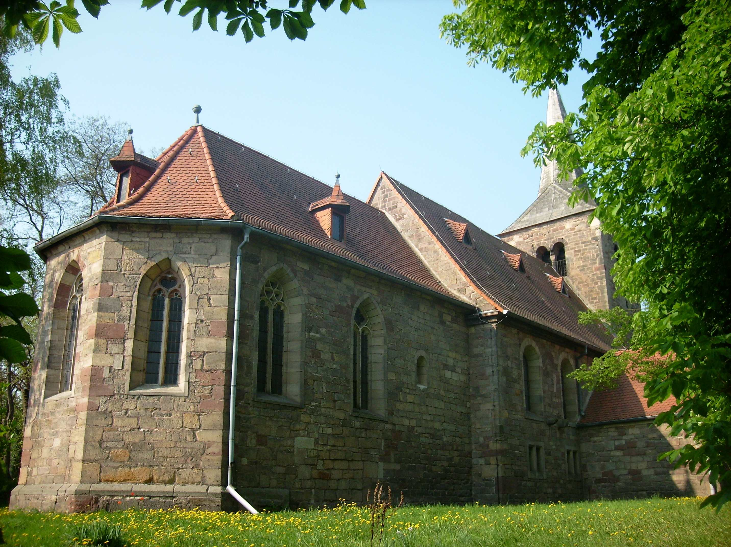 Church of the village of Kirchscheidungen (Laucha an der Unstrut, district of Burgenlandkreis, Saxony-Anhalt)